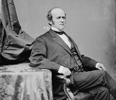 David Smith Bennett, Congressman from New York